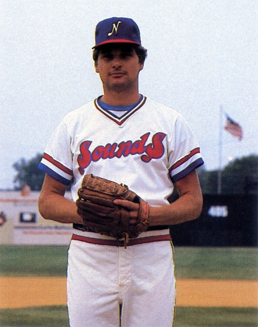 Pitcher Stefan Wever of the 1982 Nashville Sounds Minor League Baseball team of the Southern League